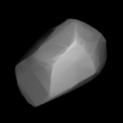 3D convex shape model of 1275 Cimbria, computed using light curve inversion techniques. J. Hanuš, J. Ďurech, M. Brož, B. D. Warner (June 2011). "A study of asteroid pole-latitude distribution based on an extended set of shape models derived by the lightcurve inversion method". Astronomy and Astrophysics 530: A134. ISSN 0004-6361. arXiv